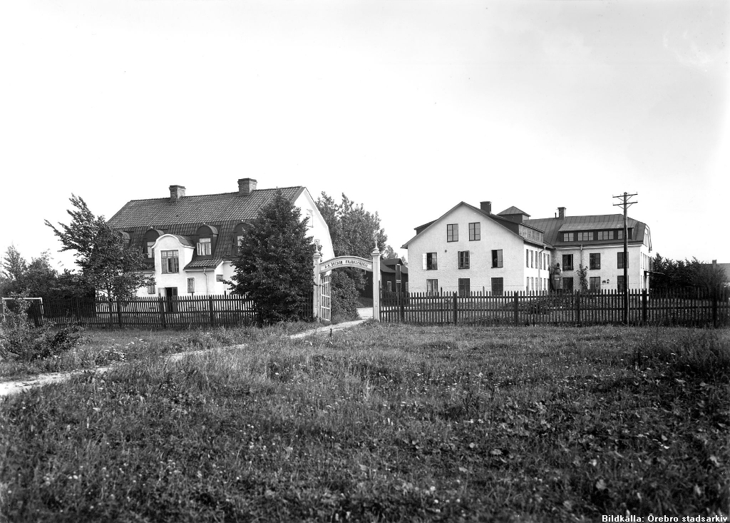 The pottery plant Karlberg, Örebro, Sweden